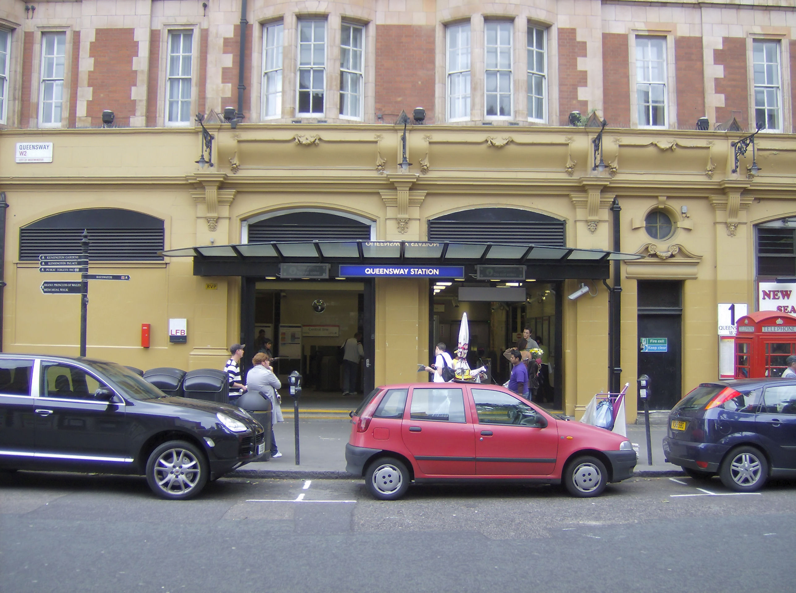 The exterior of Queensway tube station. The building was repainted from red to yellow some time between April 2005 and June 2007.